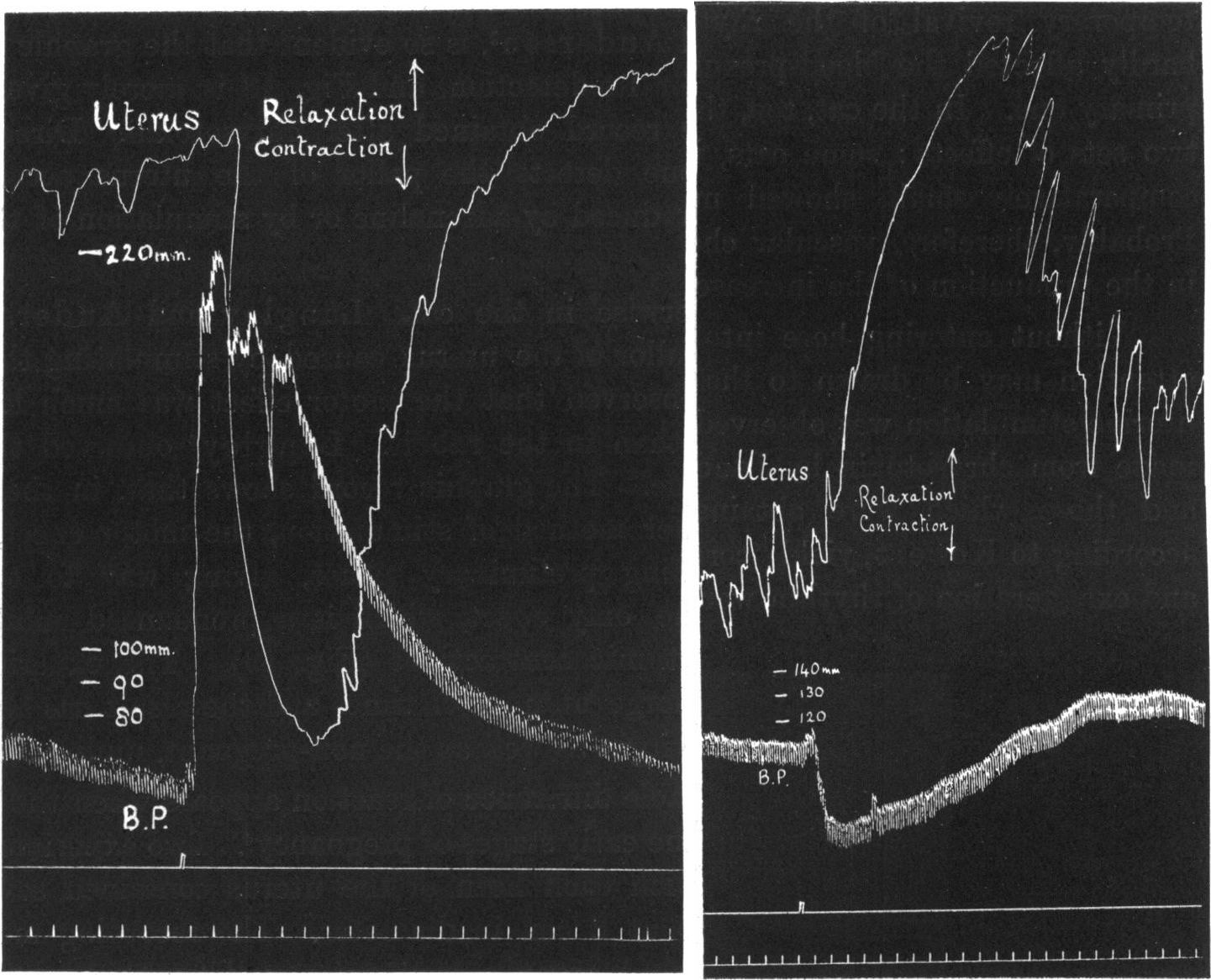 From Dale's paper J. Physiol. 1906: an ergot extract reverses the effect of adrenaline on blood pressure and uterus in an anaesthetized cat